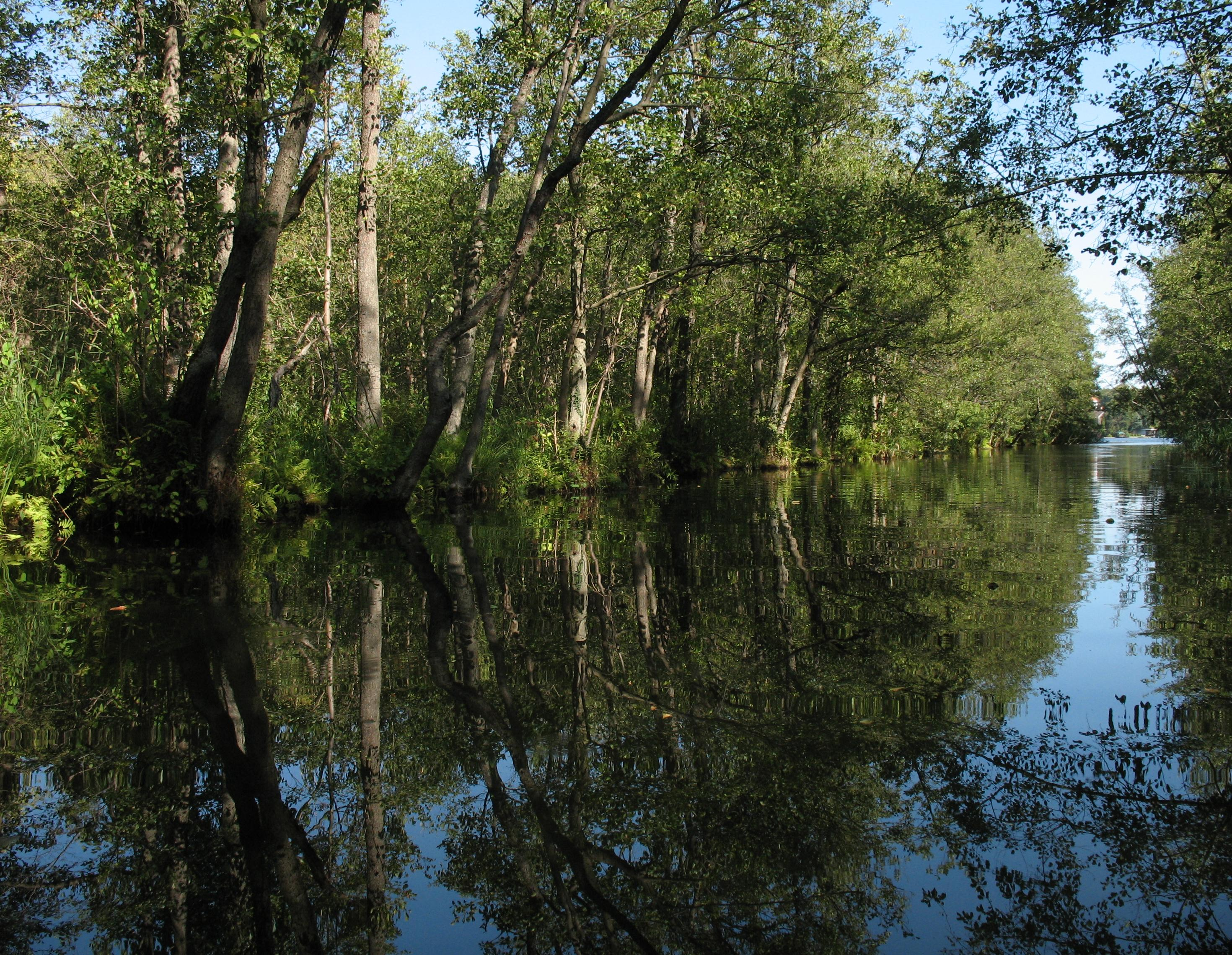 Stream Wurlflut in Lychen in Brandenburg, Germany